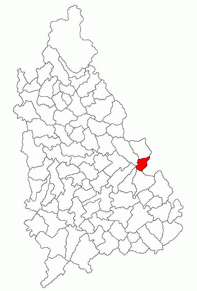 Location map of Vladeni Commune in Dambovita County, Romania